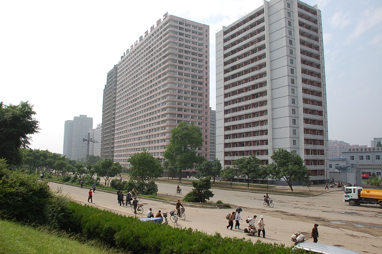 Trip to North Korea in June, 2008